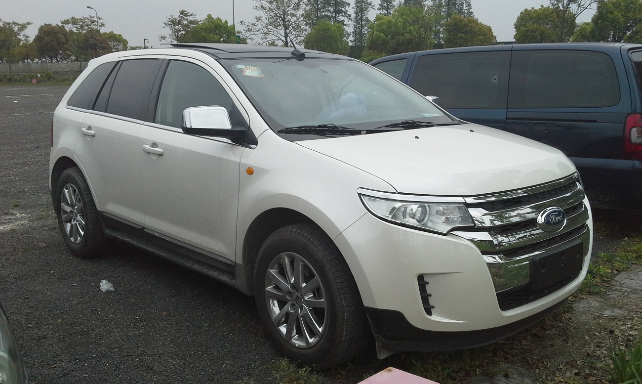 Ford Edge facelift photographed in Anting, Shanghai municipality, China.